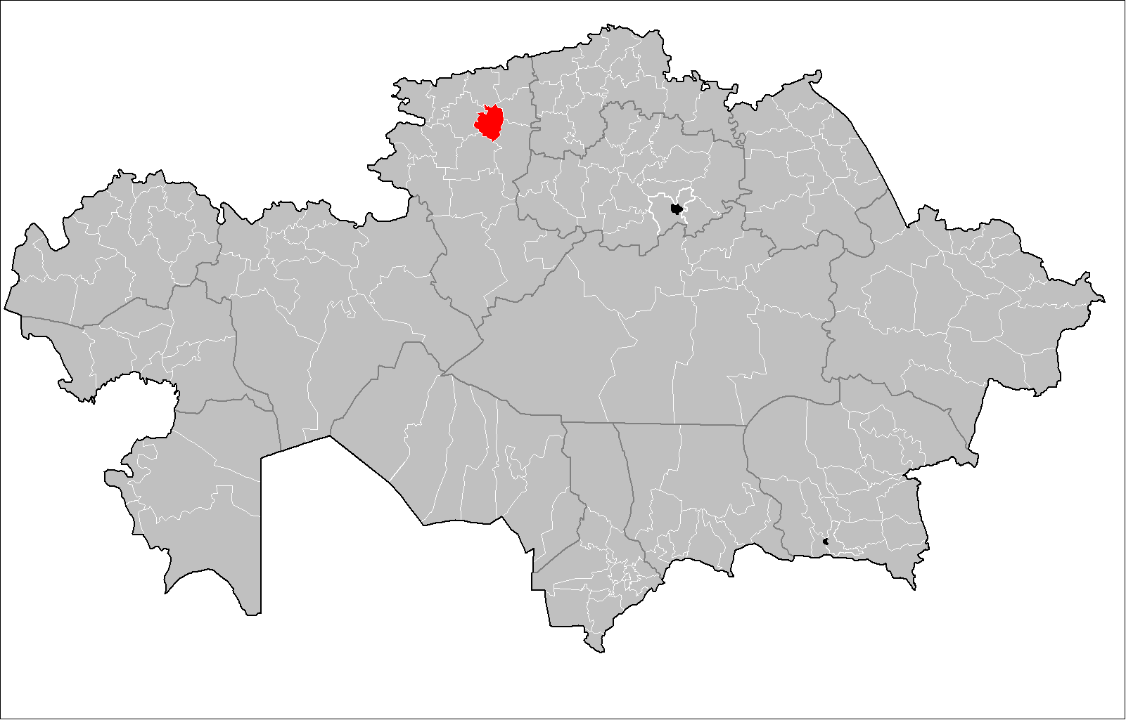 Map of the rayons of Kazakhstan. Created by Rarelibra 16:49, 3 August 2007 (UTC) for public domain use, using MapInfo Professional v8.5 and various mapping resources.